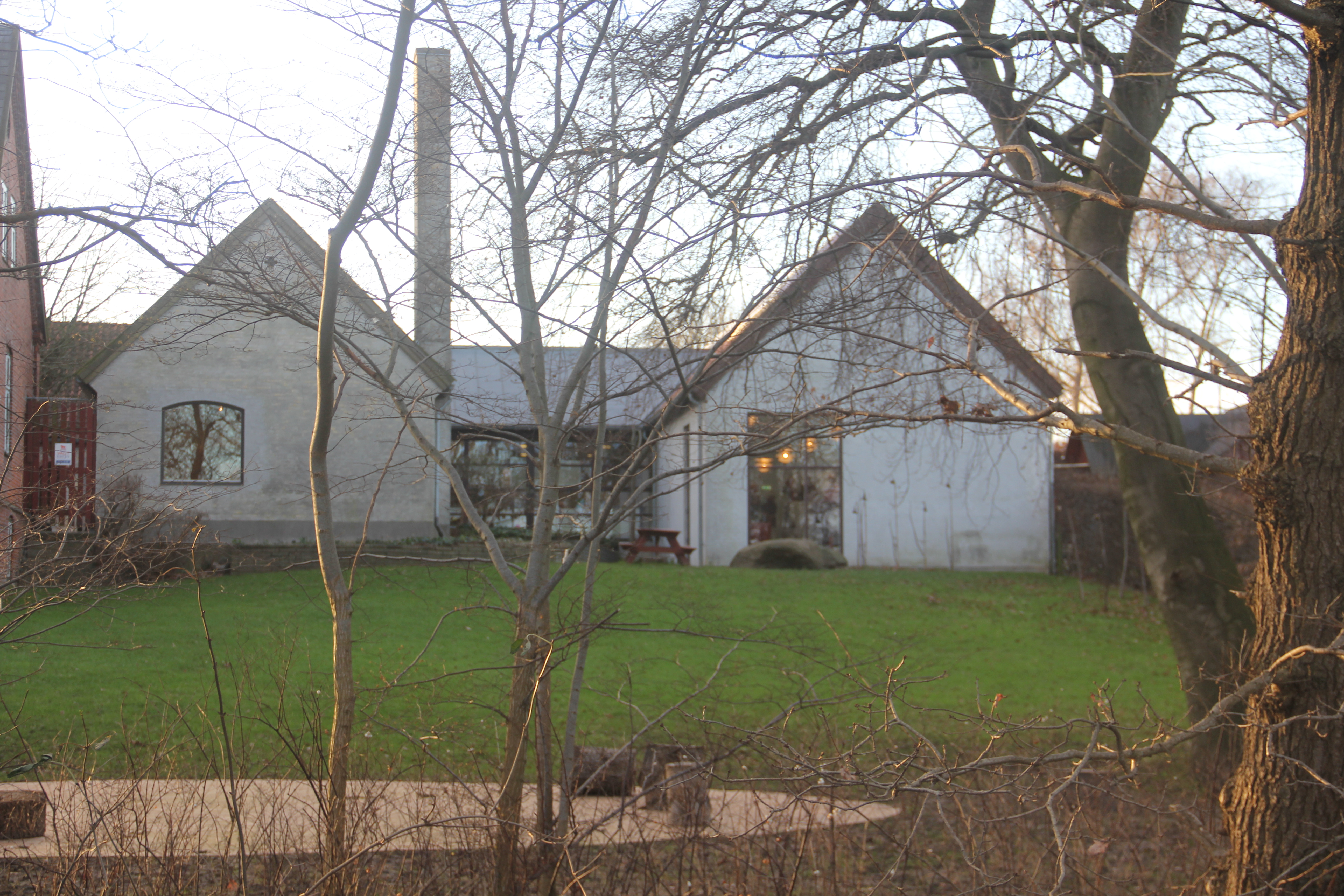 Heerup Museum Rødovre, Denmark